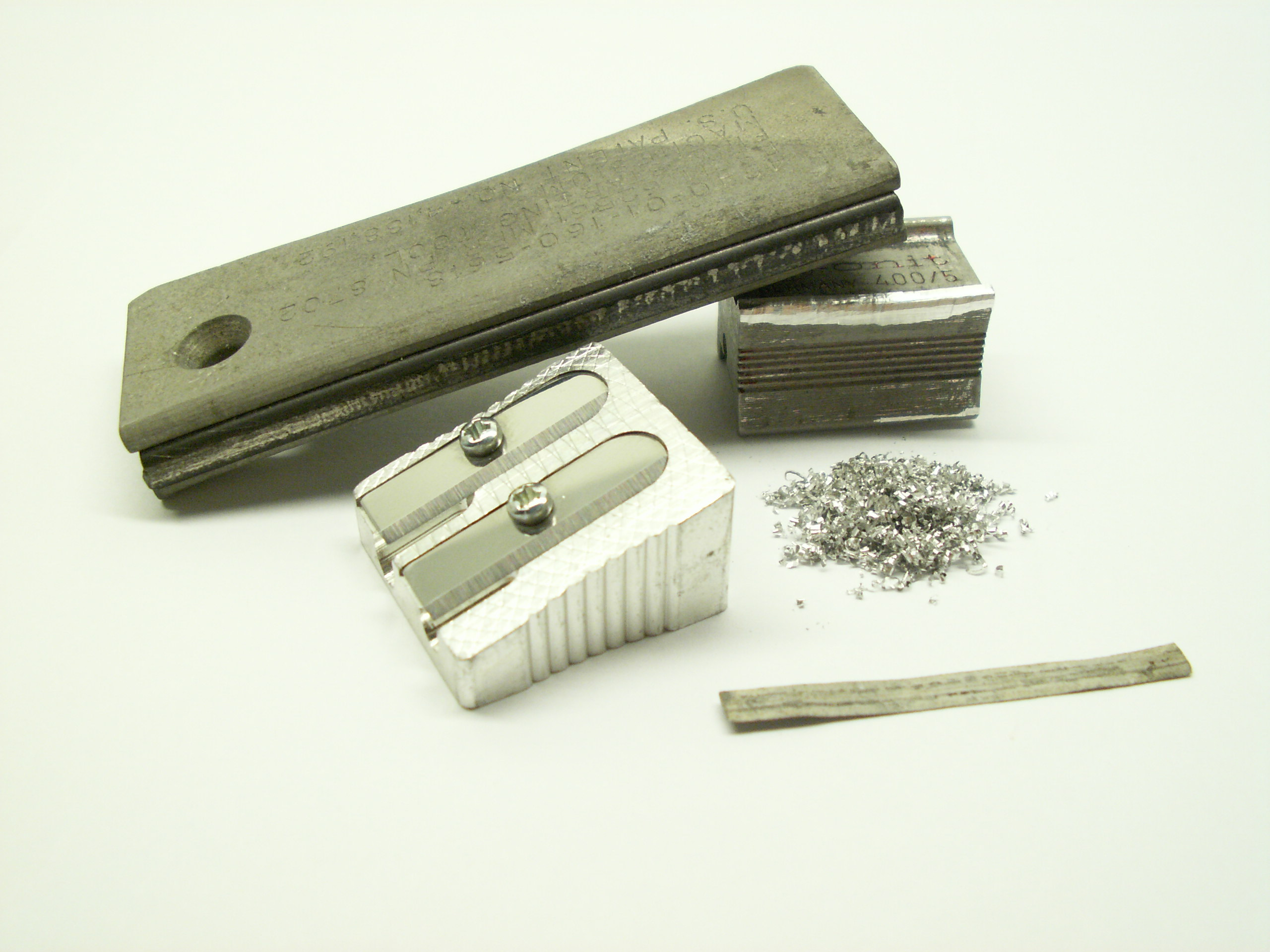 Products made of magnesium: firestarter and shavings, sharpener, magnesium ribbon Photographer: Markus Brunner Date:22.09.2005